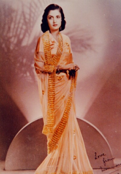 Maharani Ourmilla Devi of Jubbal